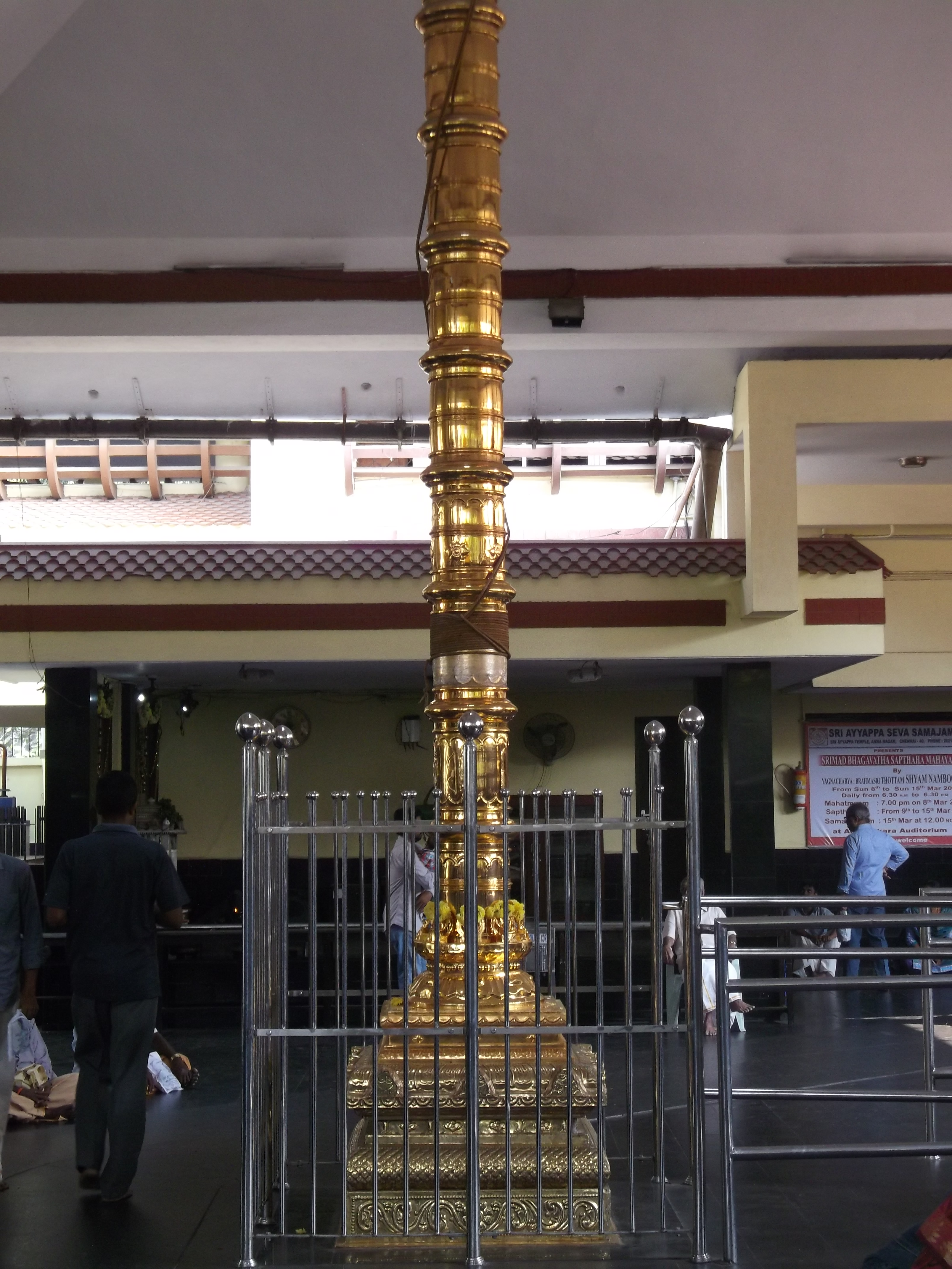 The Dwajasthambam (sacred pillar) at the Anna Nagar Ayyappan Koil, taken on 22 February 2015 at around 9:30 am.